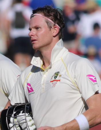 Usman Khawaja and Steve Smith during the 2nd Day of the 5th test of the 2017/18 Ashes